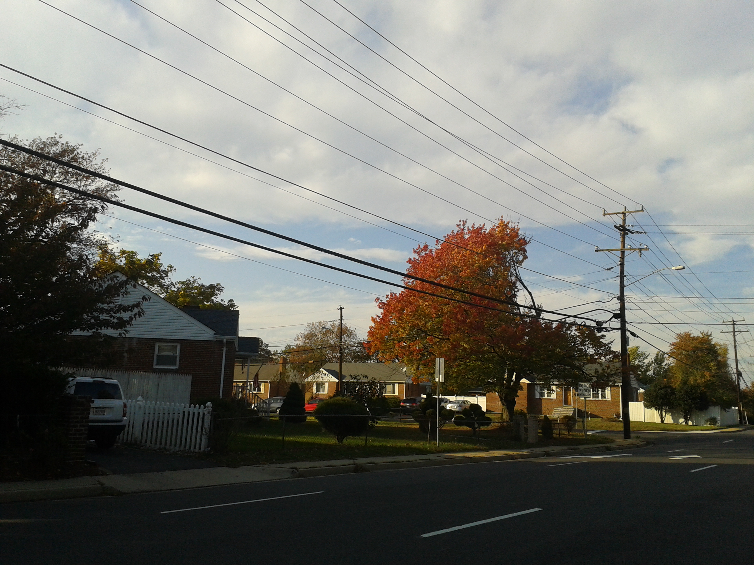 Taken by me in October, 2016